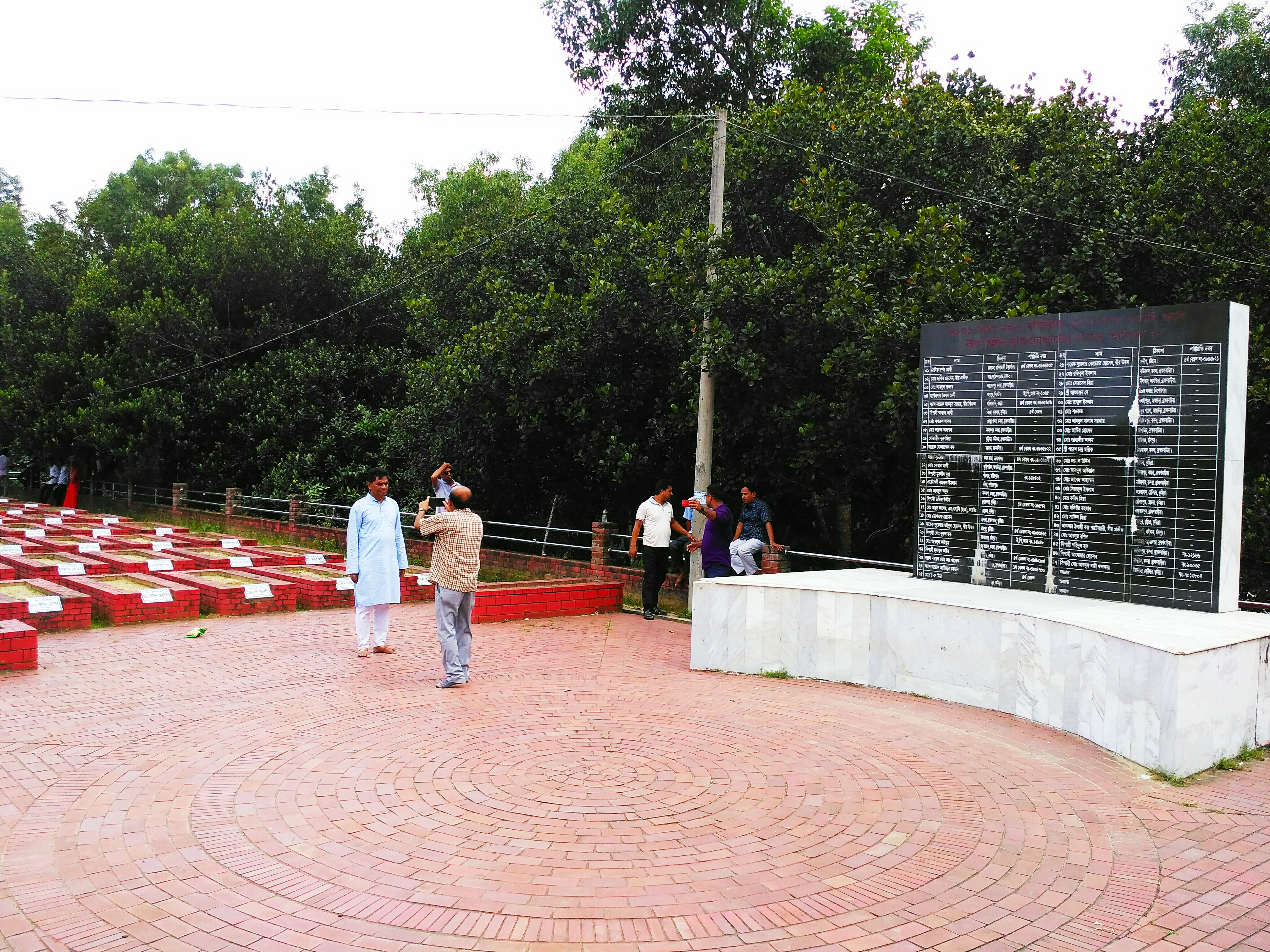 Kullapathar Martyrs Memorial, kasba, Brahmanbaria. Left side, graves of the martyrs freedom fighters of liberation war of Bangladesh. Right side, list of the names of the martyrs. Some tourists in the picture. ( 01.09.2019)